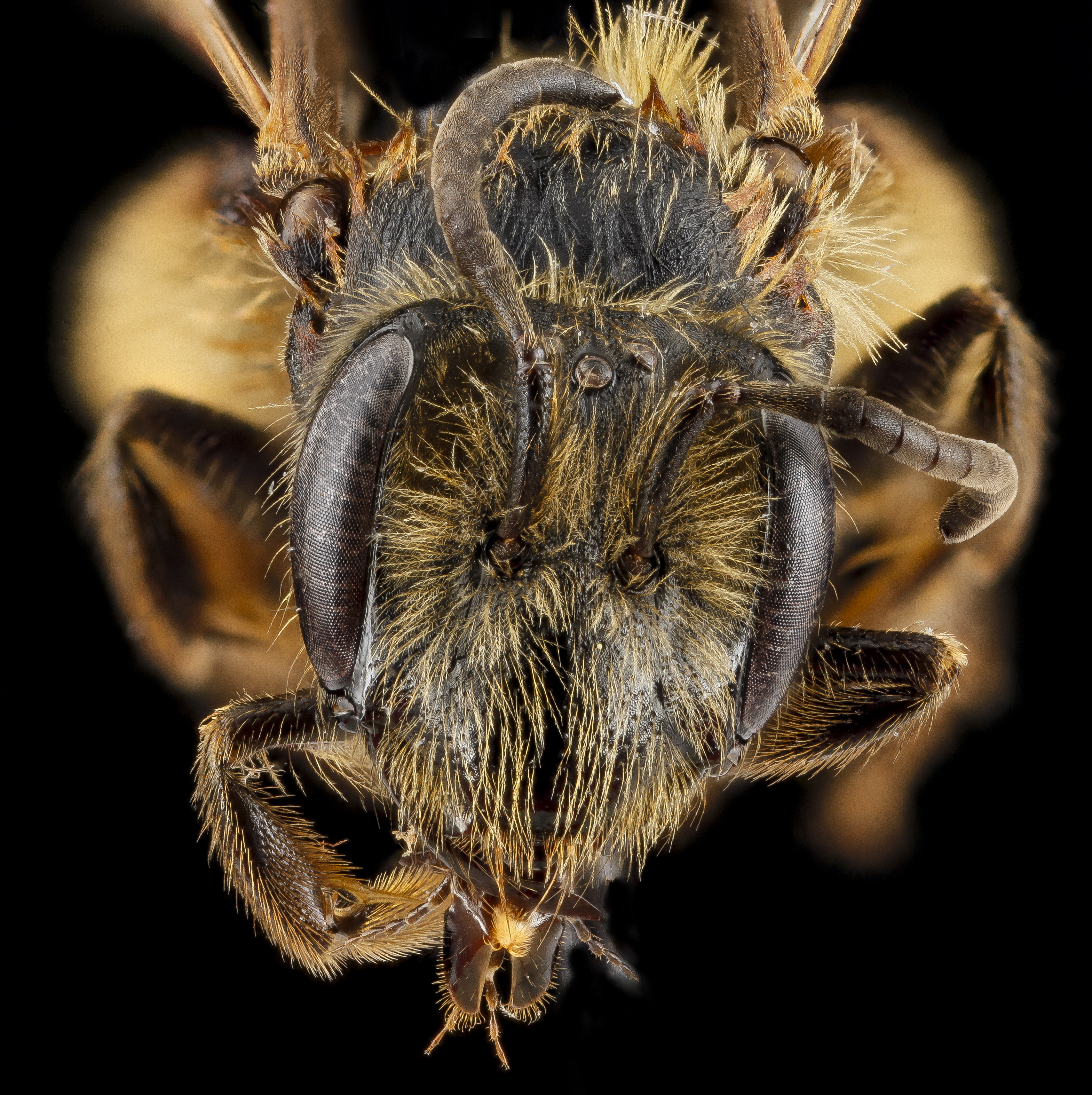 Hardy County, West Virginia